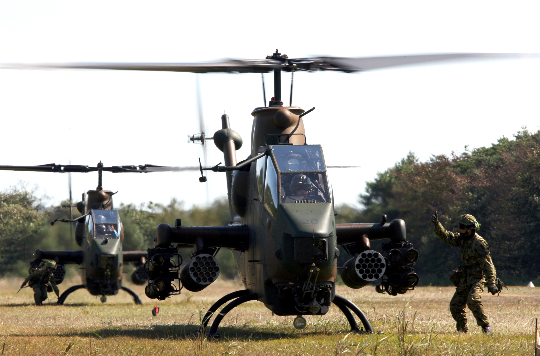 Title １２Ｂ：旅団協同転地演習において王城寺原演習場に飛来したAH-1S_R.JPG Album 装備 ＡＨ－１Ｓ（第１２旅団協同転地演習）